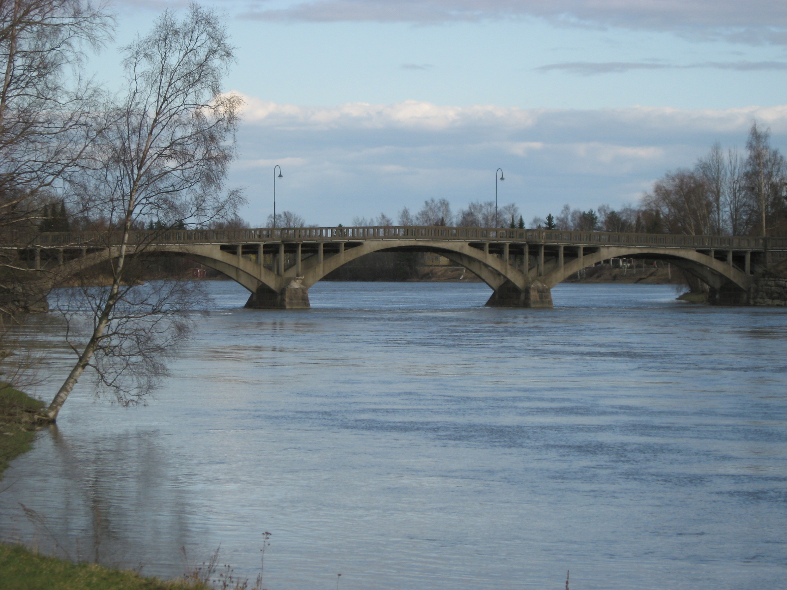 A museum bridge in Kokemäki, Finland